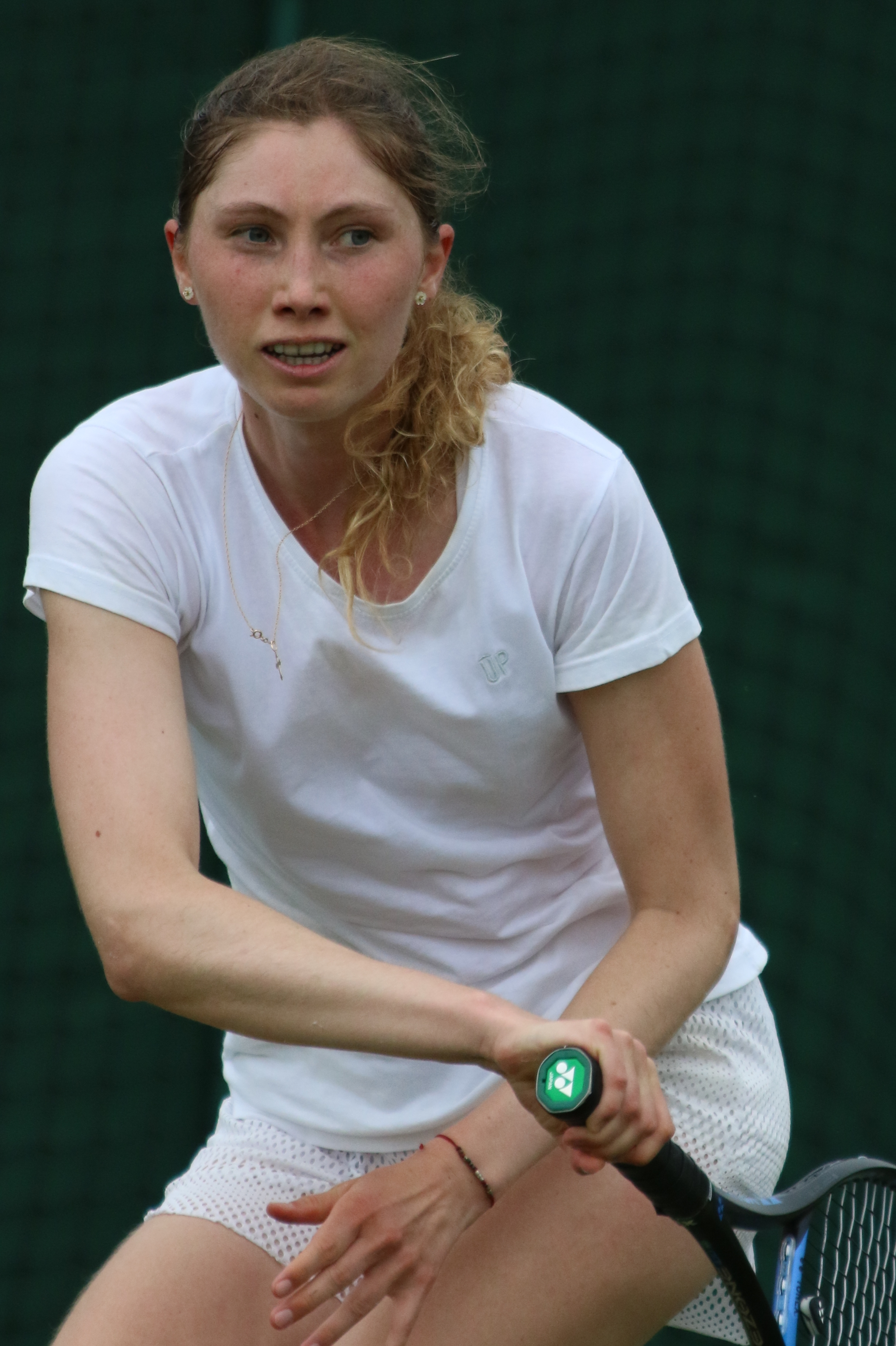 2019 Wimbledon Qualifying Tournament.